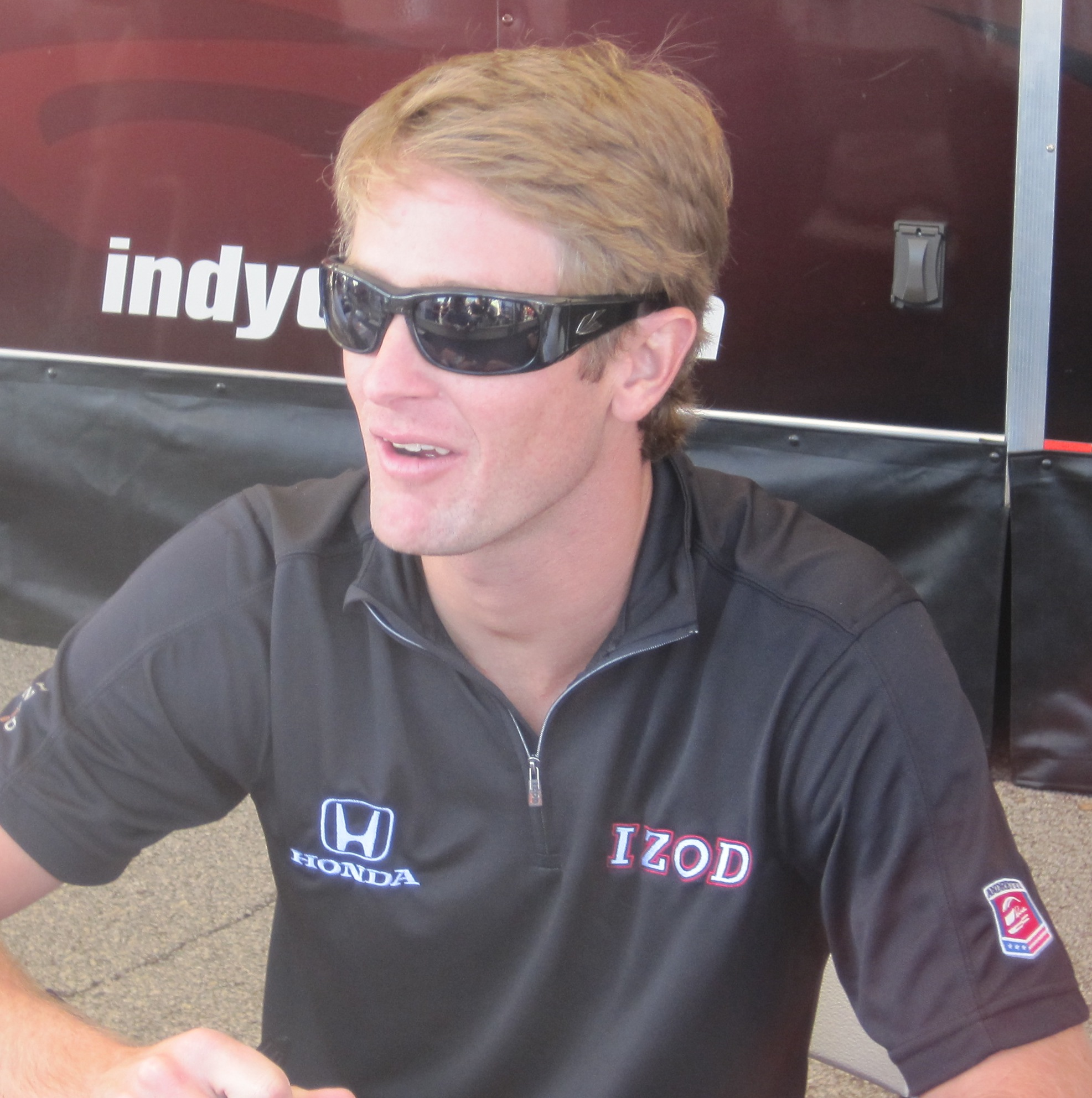 Andretti Autosport's Ryan Hunter-Reay at the 2010 Indianapolis 500 opening weekend autograph session at Castleton Square Mall in Indianapolis, Indiana on Friday, May 14, 2010.